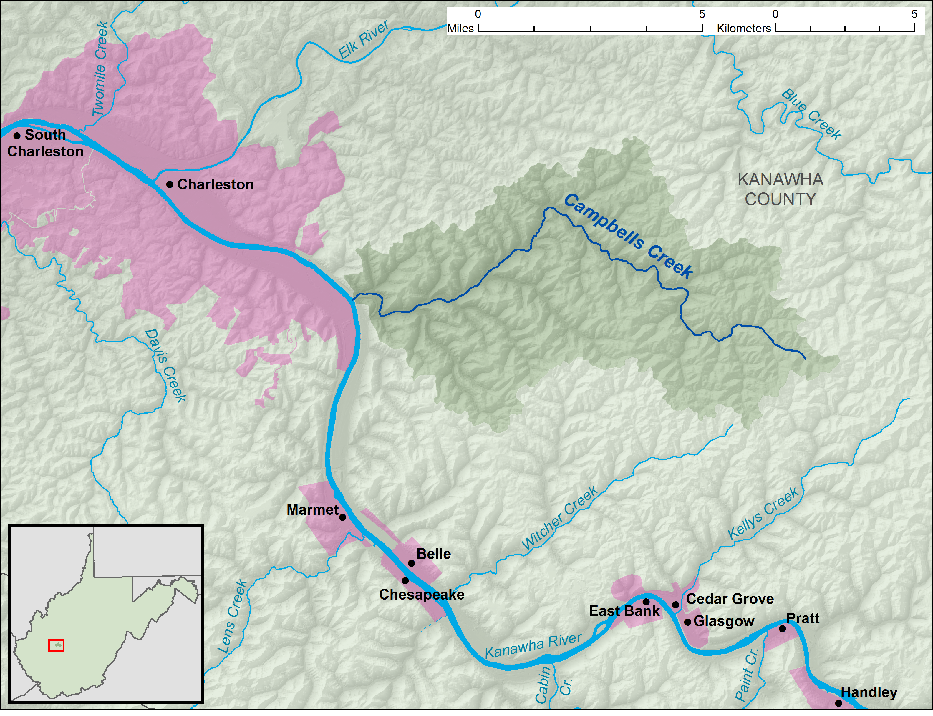 A map of Campbells Creek and its watershed (USGS HUC-12 code 050500060404), in Kanawha County, West Virginia.